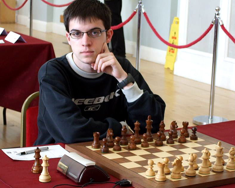 GM Maxime Vachier-Lagrave - Round 6 of 4th EU Individual Open Ch., Liverpool World Museum, William Brown Street